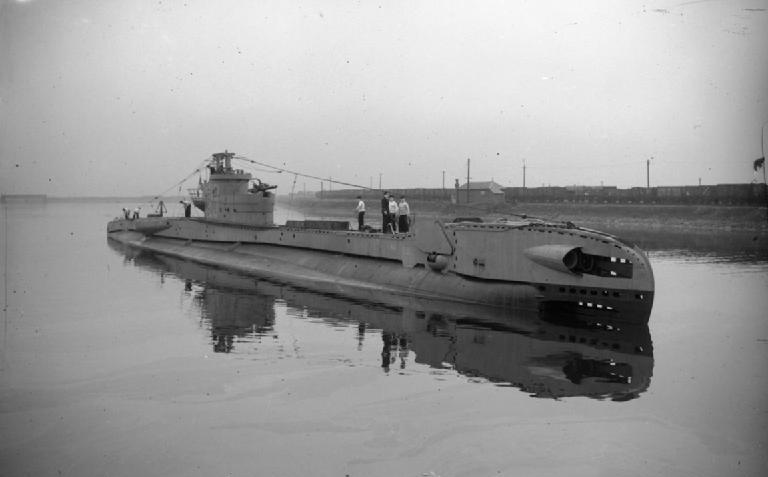 British T class submarine HMSM TERRAPIN underway on completion at Barrow.